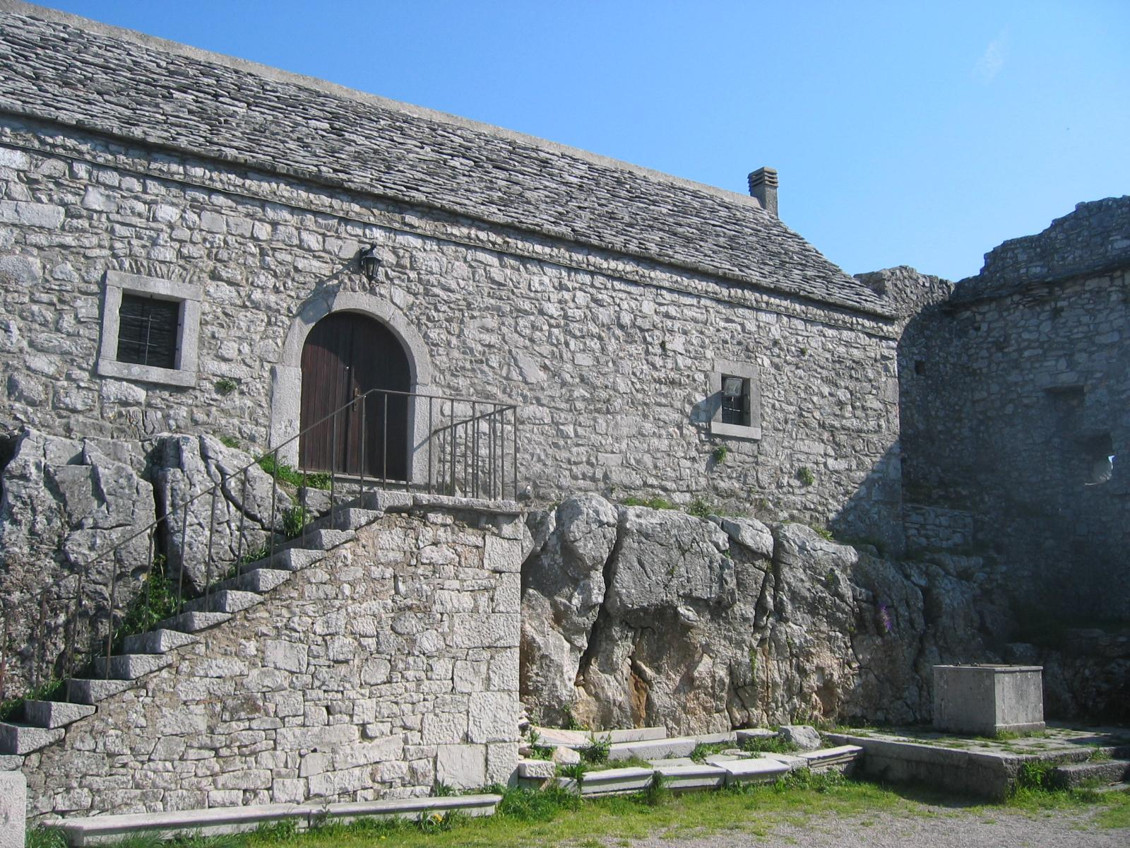 Repentabor — church in Rocca di Monrupino, in Italy (near border with Slovenia). photo:Ziga 18:25, 20 April 2007 (UTC)